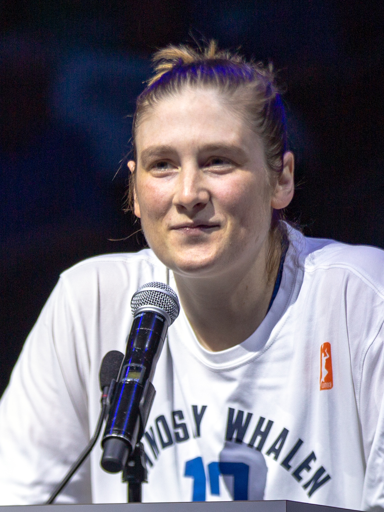 The game was on Sunday August 19, 2018 at Target Center in Minneapolis, MN, the Minnesota Lynx beat the Washington Mystics 88-83